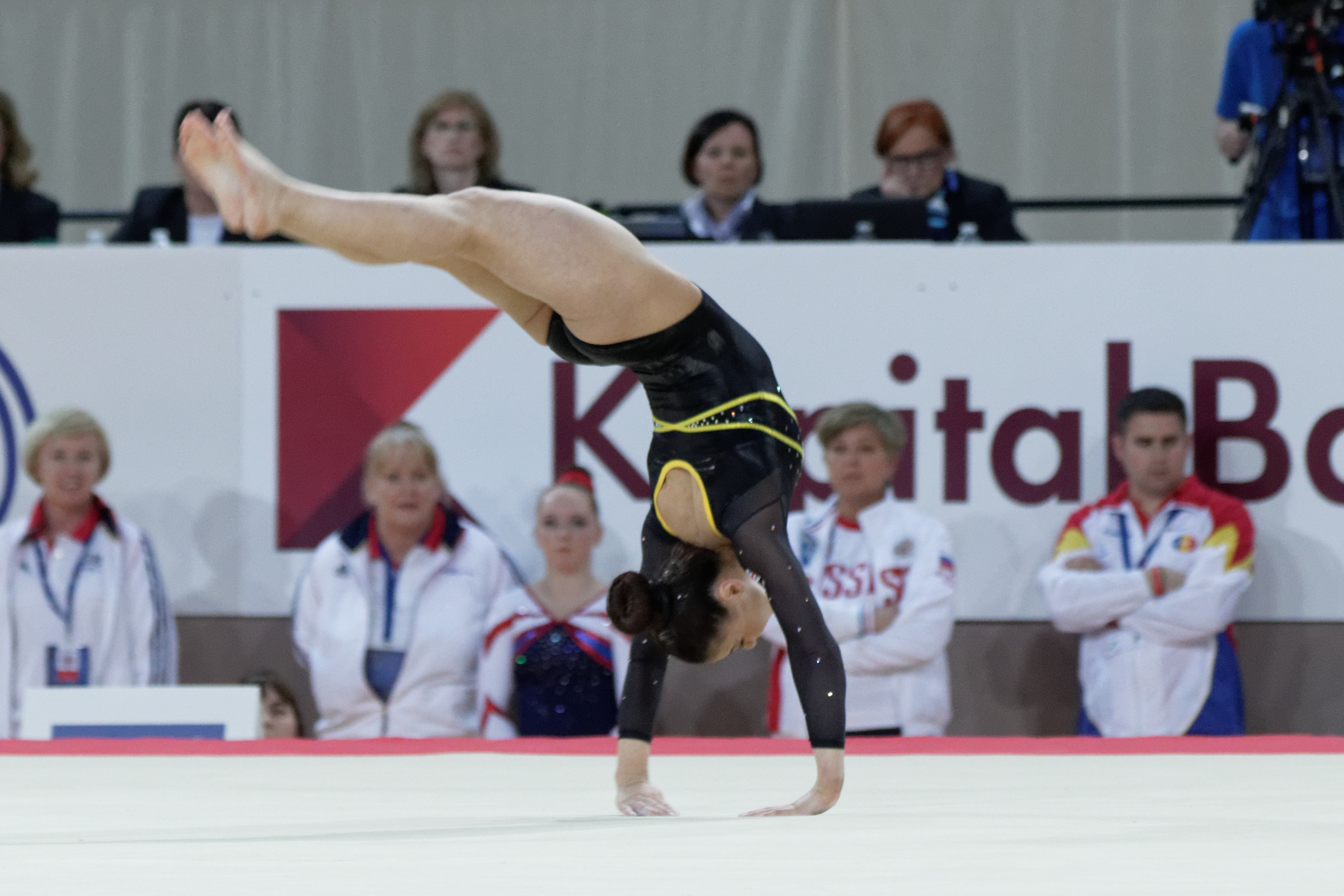 2015 European Artistic Gymnastics Championships.